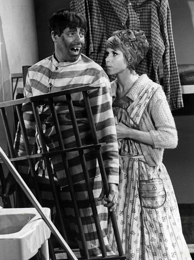 Photo of Jerry Lewis and Judy Carne in a skit from his variety television program The Jerry Lewis Show.